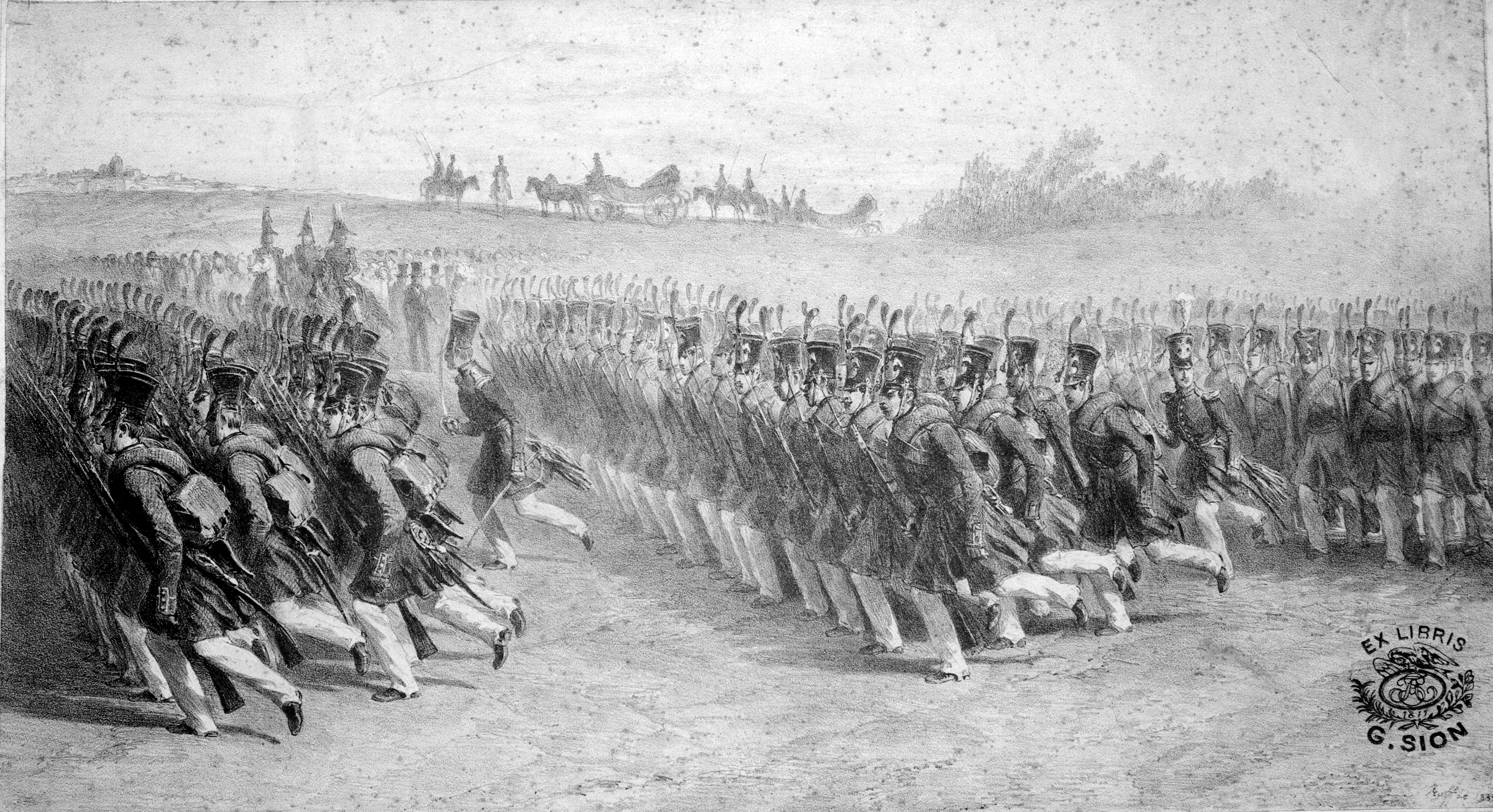 Wallachian infantry marching, 1837